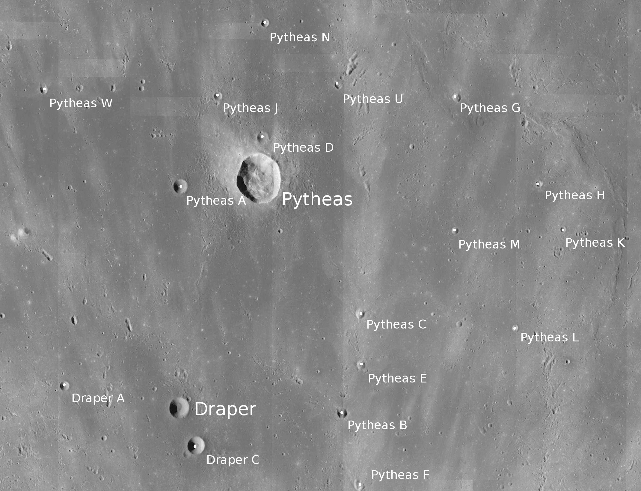 Crater Pytheas with satellite features (detail of LRO - WAC global moon mosaic)